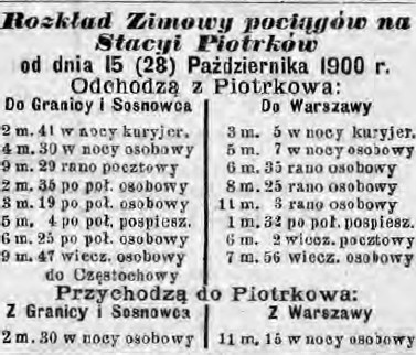 Railway Station Piotrków Trybunalski - Timetable 1900/1901